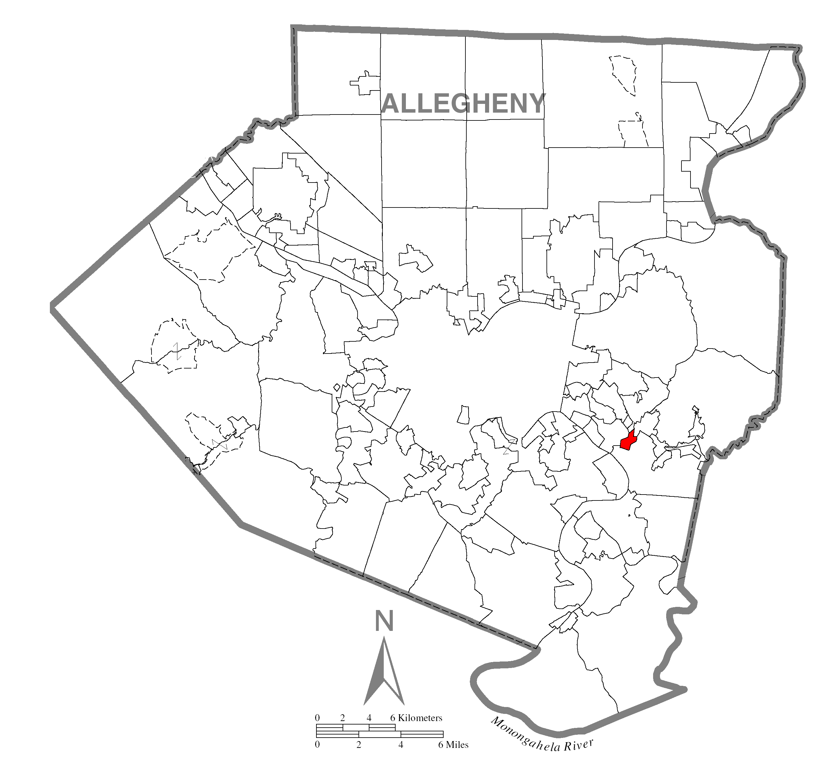 A map of Allegheny County showing East Pittsburgh, Pennsylvania (alternate) highlighted on the map.